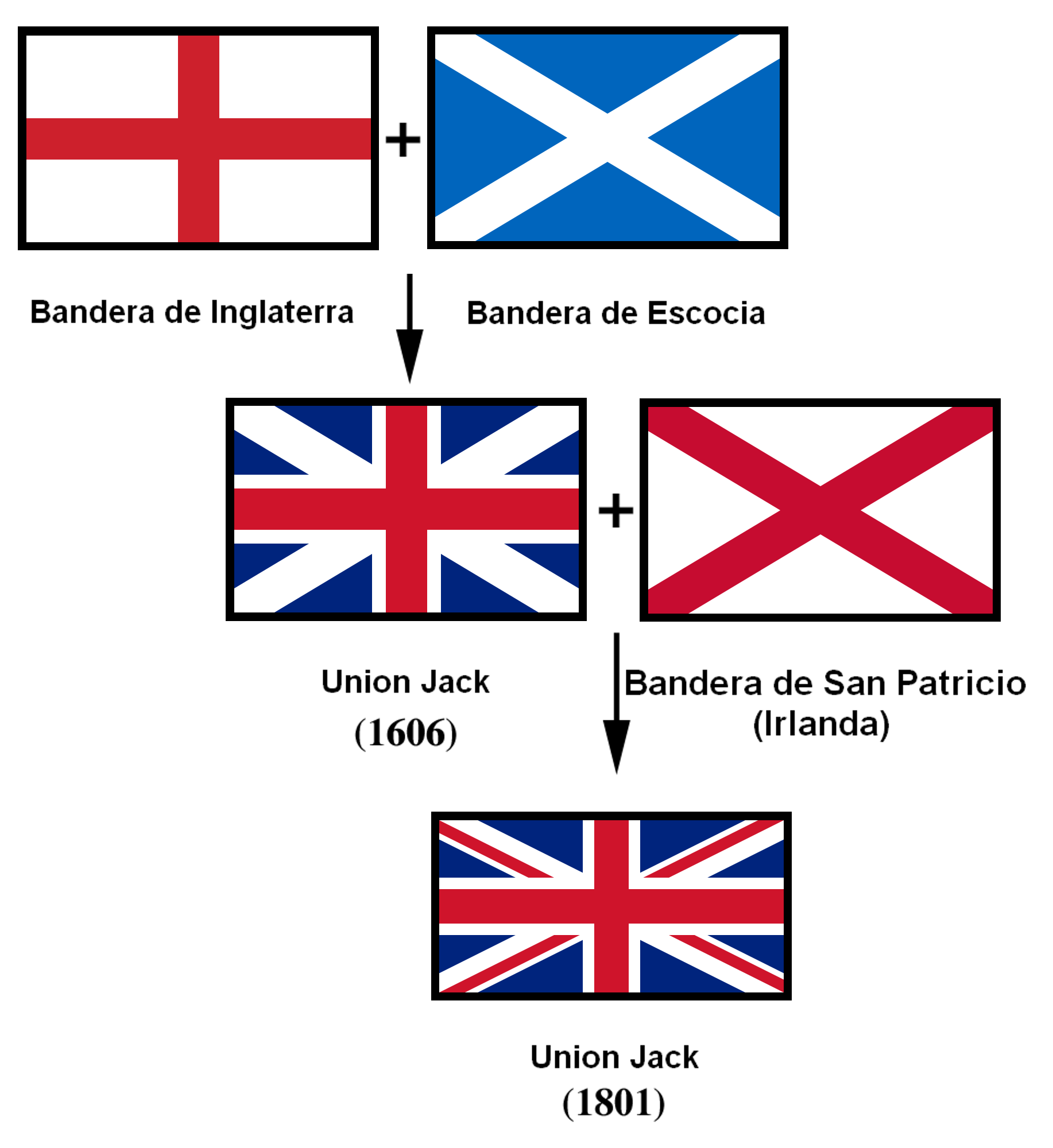 Translated from Image:Flags of the Union Jack-fr.png with Spanish captions Basic language-neutral SVG available at Image:Flags of the Union Jack.svg